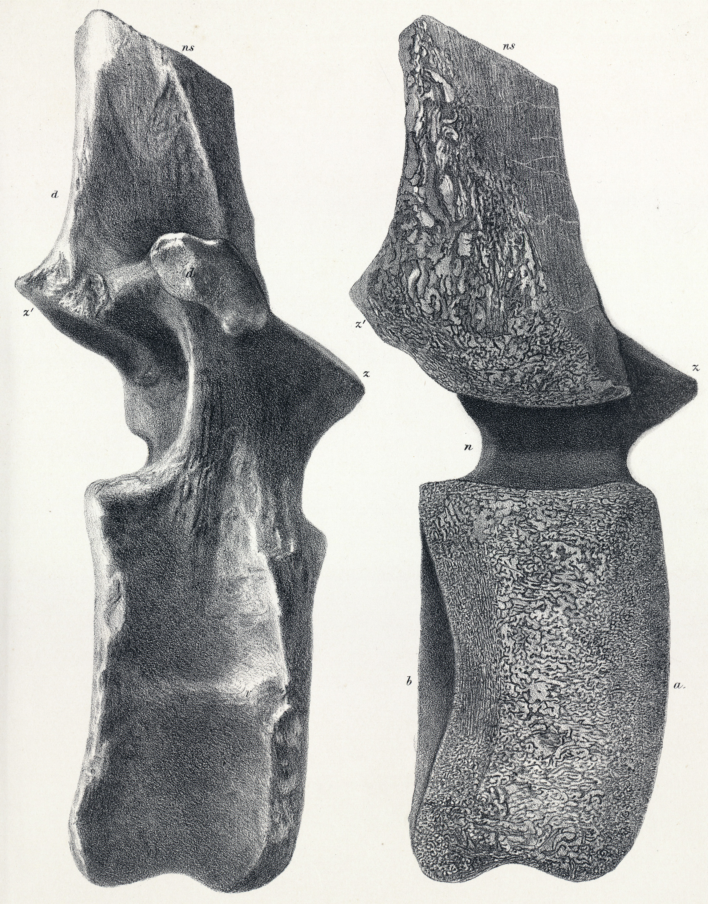 Cetiosaurus brevis. Fig. 1. Side view of a dorsal vertebra, half natural size. Fig. 2. Vertical longitudinal section a dorsal vertebra, half natural size. From the Wealden of the Isle of Wight. British Museum.